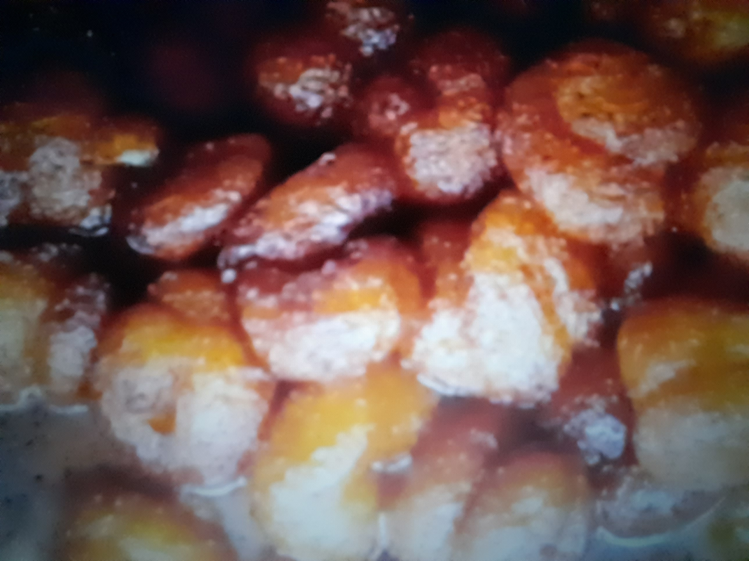 Chhena jhili as the name suggests is made using chhena that is the Indian cottage cheese